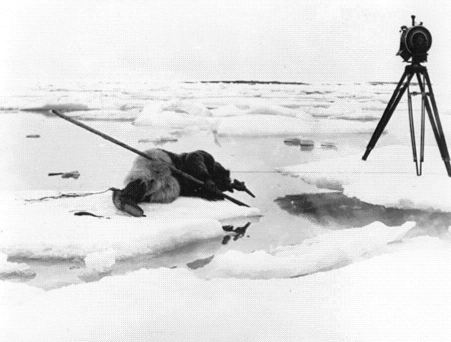 Nanook of the North (Robert J. Flaherty, 1922)